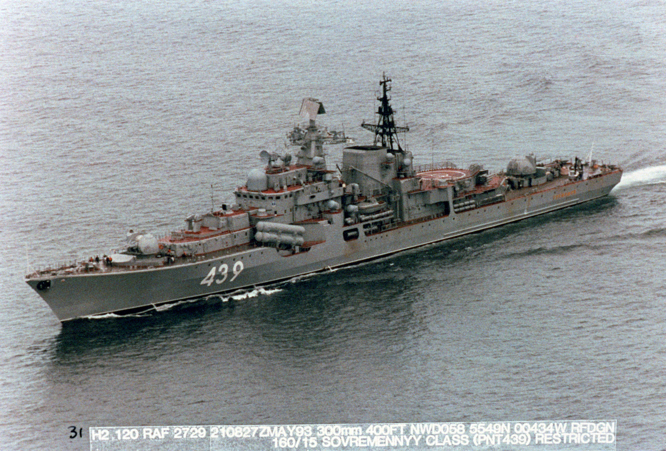 A port bow view of the Russian Project 956 "Sarych" (Sovremenny class) destroyer Gremyashchiy (439) underway.